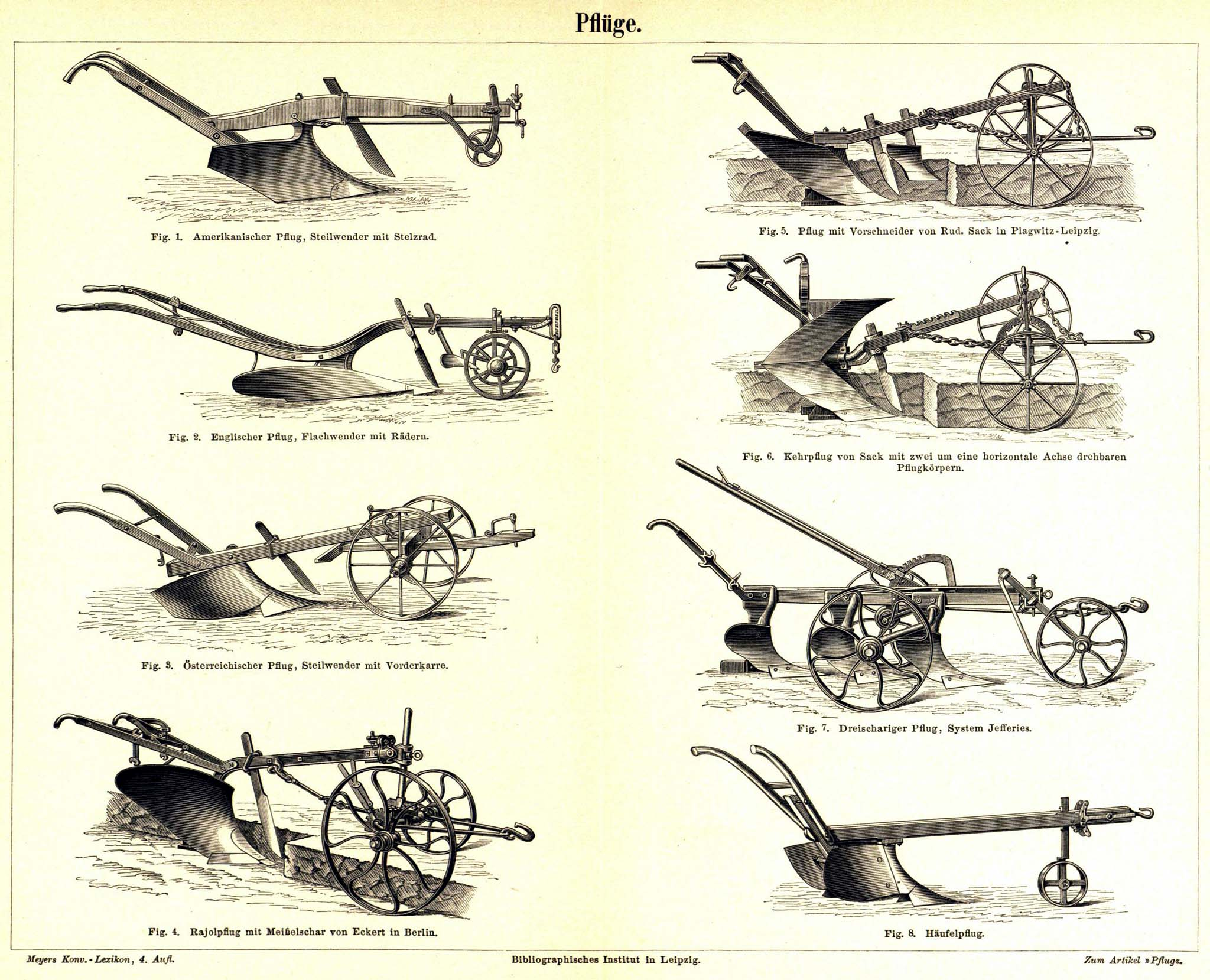 Different types of ploughs.